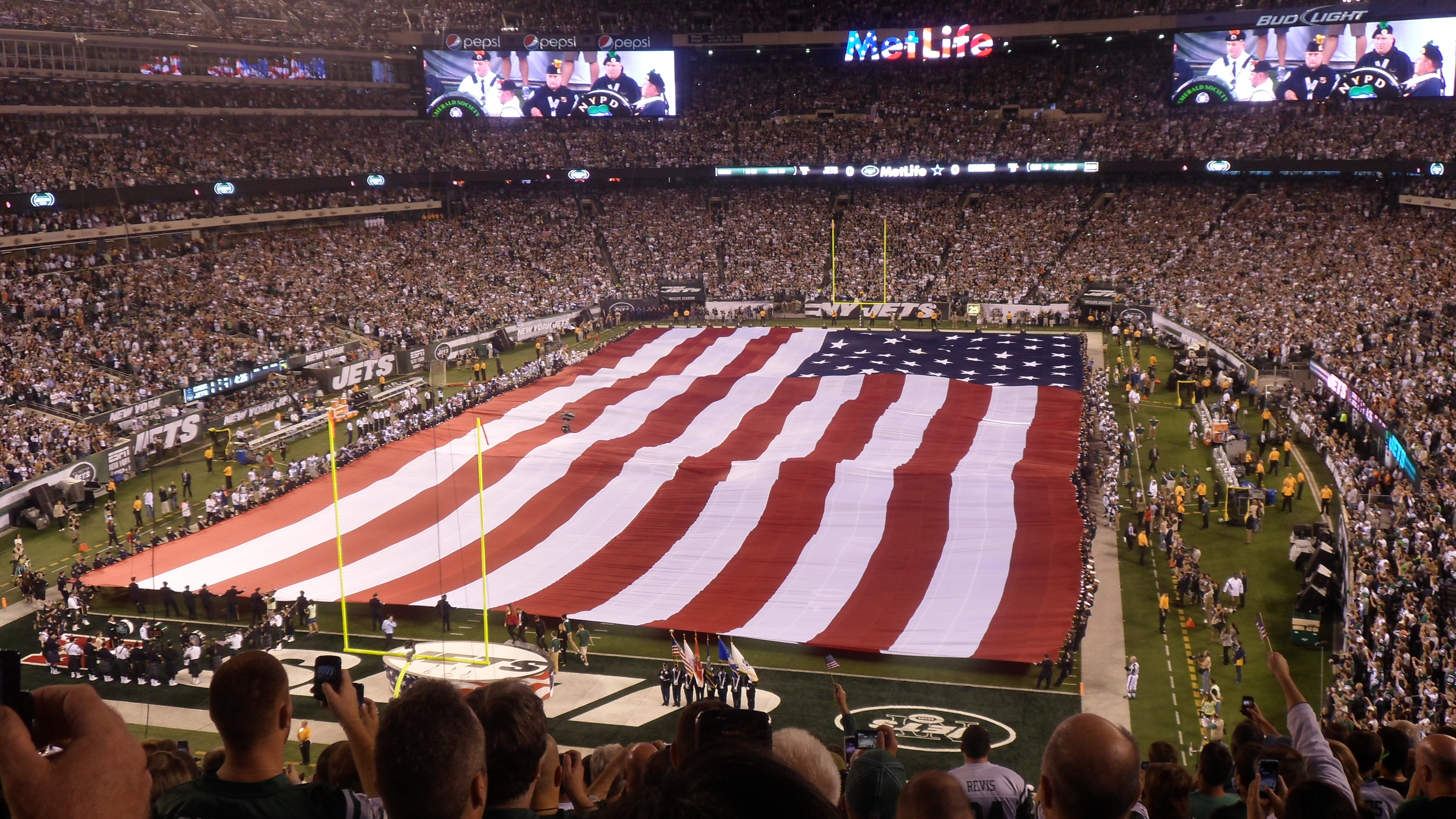 September 11, 2011 Pregame tribute Jets vs. Cowboys